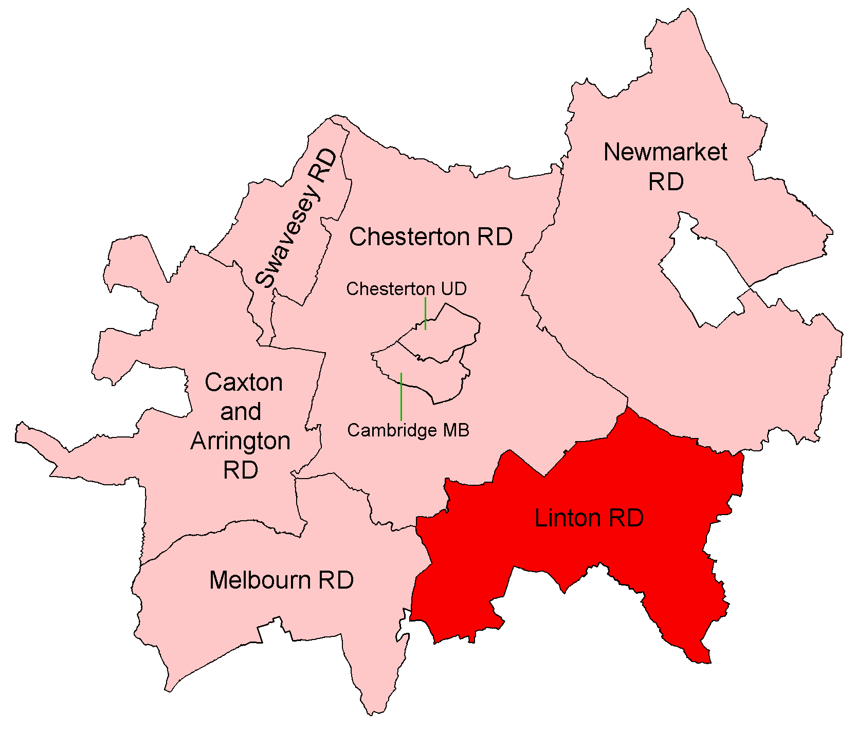 Linton Rural District, shown within the administrative county of the Cambridgeshire. Cambridge MB was enlarged, and Chesterton UD abolished, 1912. Other boundaries shown are correct from 1894 to 1934.